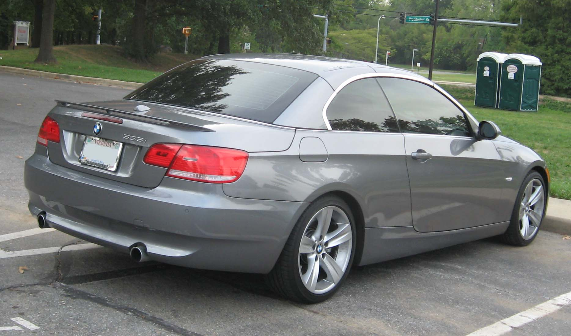 BMW 335i photographed in College Park, Maryland, USA.